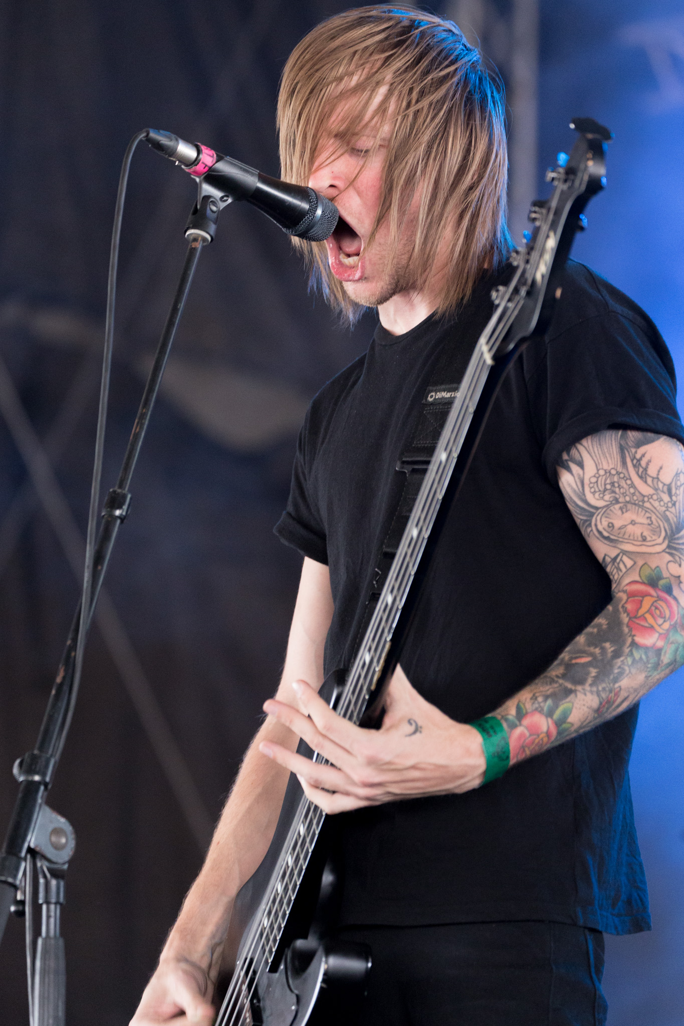 Blessthefall playing on the With Full Force Festival, July 2014